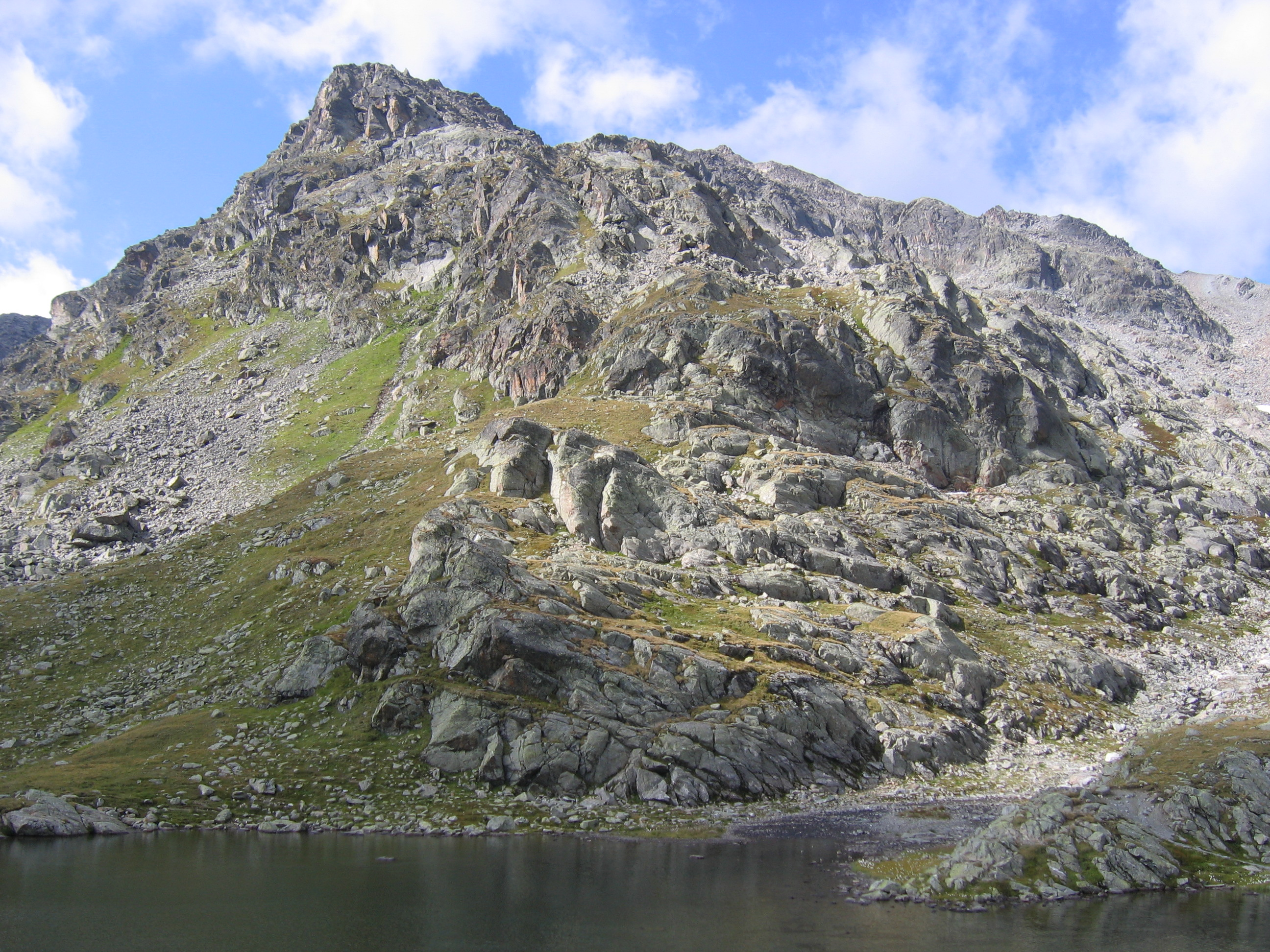 Austria - Tyrol: Lake Furgler, looking to summit of mountain Furgler (3004 m ü. A.)